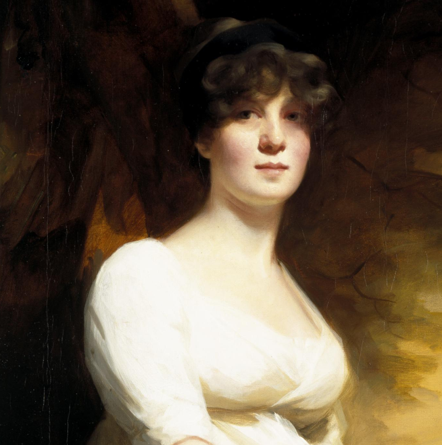 Detail of painting of Elizabeth Forbes, Mrs Colin Mackenzie of Portmore (died 1840) by Sir Henry Raeburn - en wiki says 1803